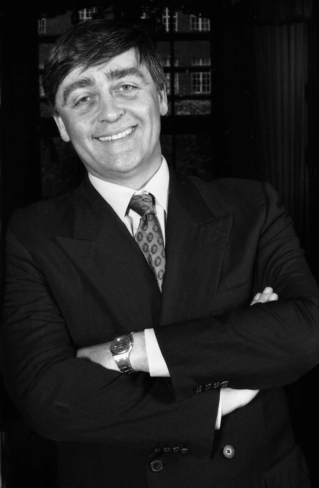 Portrait of Gerald Grosvenor, 6th Duke of Westminster.